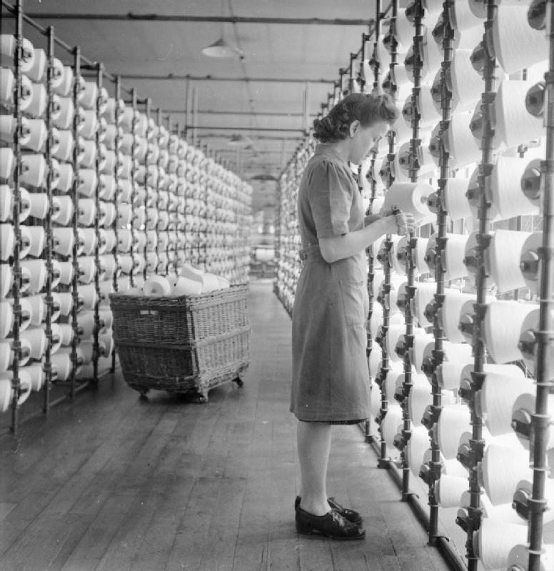 The British Cotton Industry- Everyday Life at a British Cotton Mill, Lancashire, England, UK, 1945 Cotton worker Lilian Alston fits cones of yarn into the V-shaped creel of the warping frame at a cotton mill, somewhere in Lancashire. According to the original caption, this is the first stage in the job of weaving the yarn into cloth. Rows and rows of reels can be seen on the frames behind her, as can a large wheeled basket full of yarn.